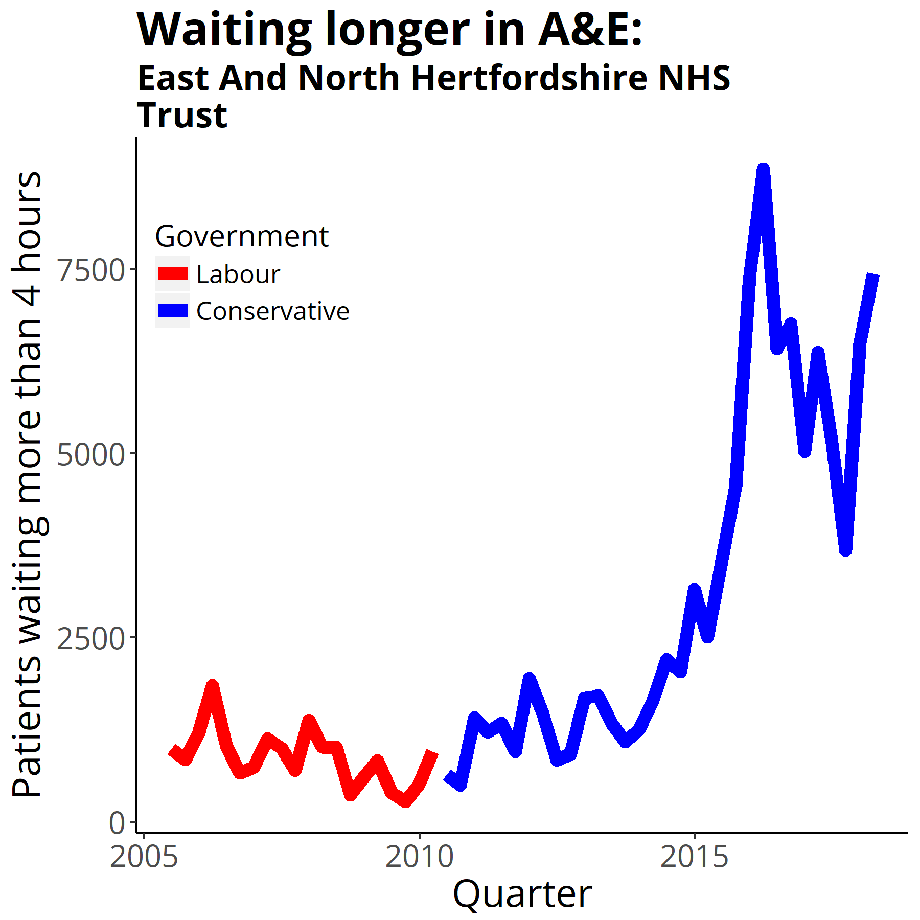 Four-hour target in the emergency department quarterly figures from NHS England Data from